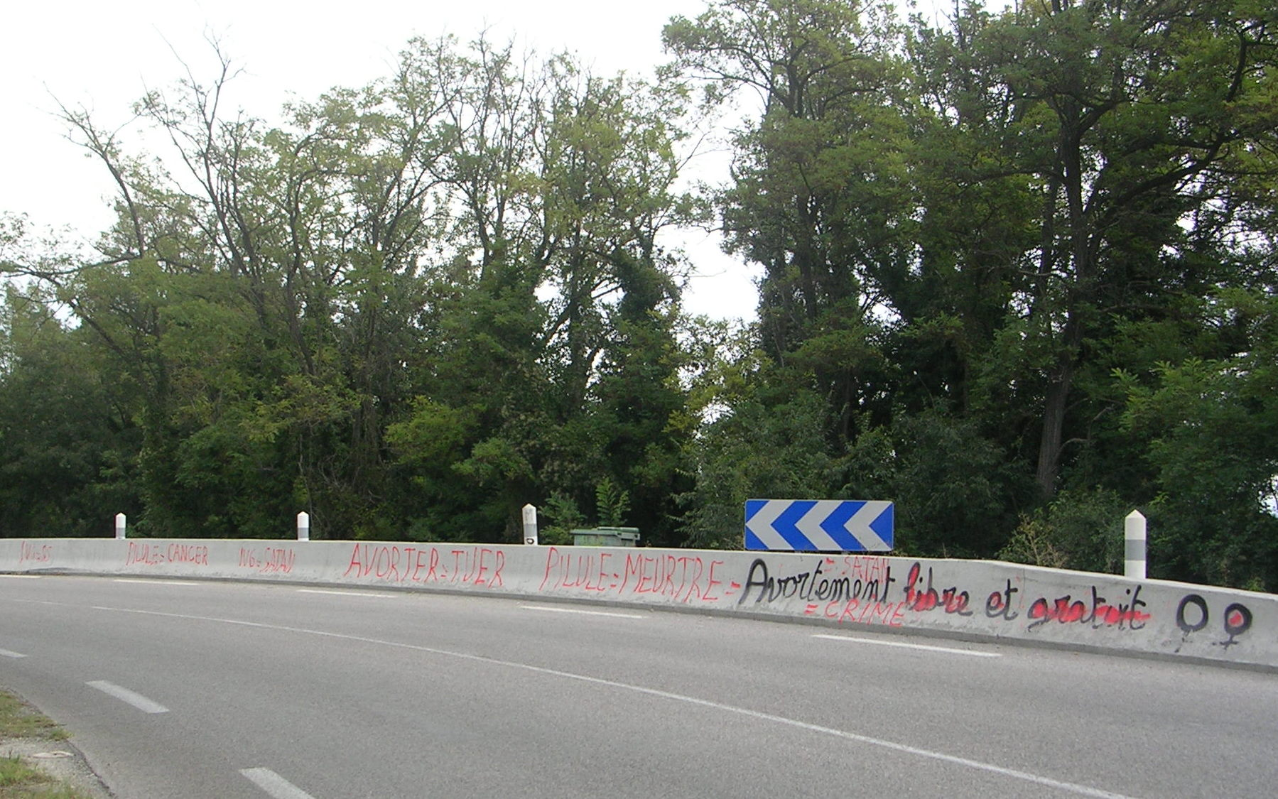 Juxtaposed anti-abortion, anti-pill and pro-abortion slogans, along a road. Corbières-en-Provence, Alpes de Haute Provence (04), France